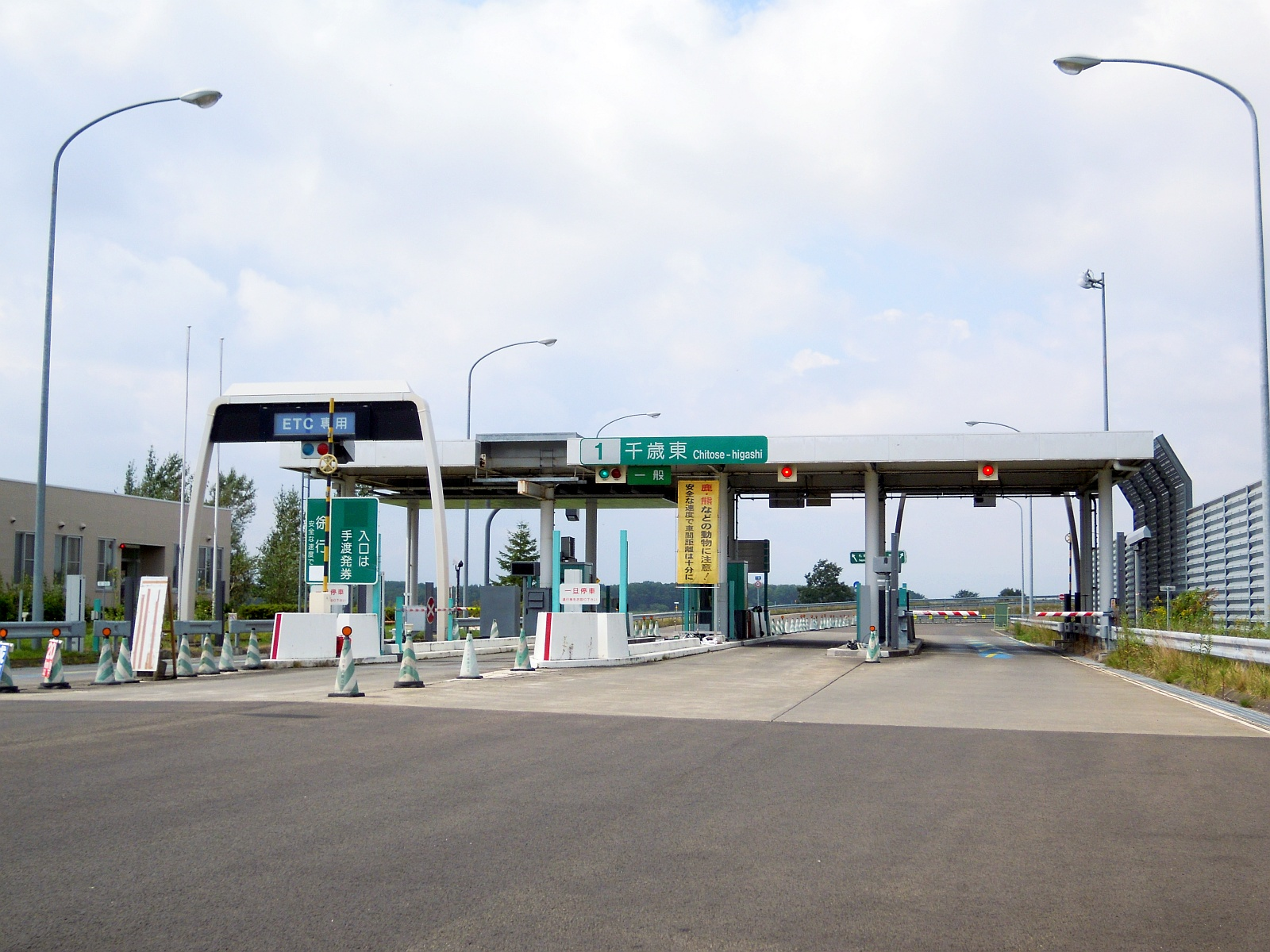 Toll gates at the Chitose-higashi Interchange on the Doto Expressway in Chitose City, Hokkaido, Japan